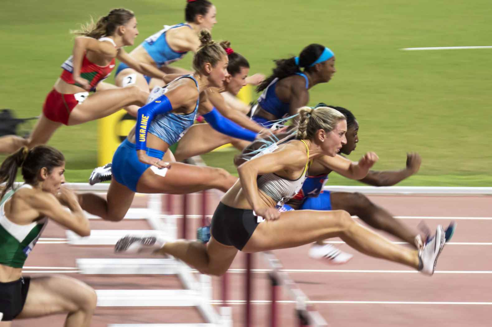 DOH80229 100mH semifinal rohleder